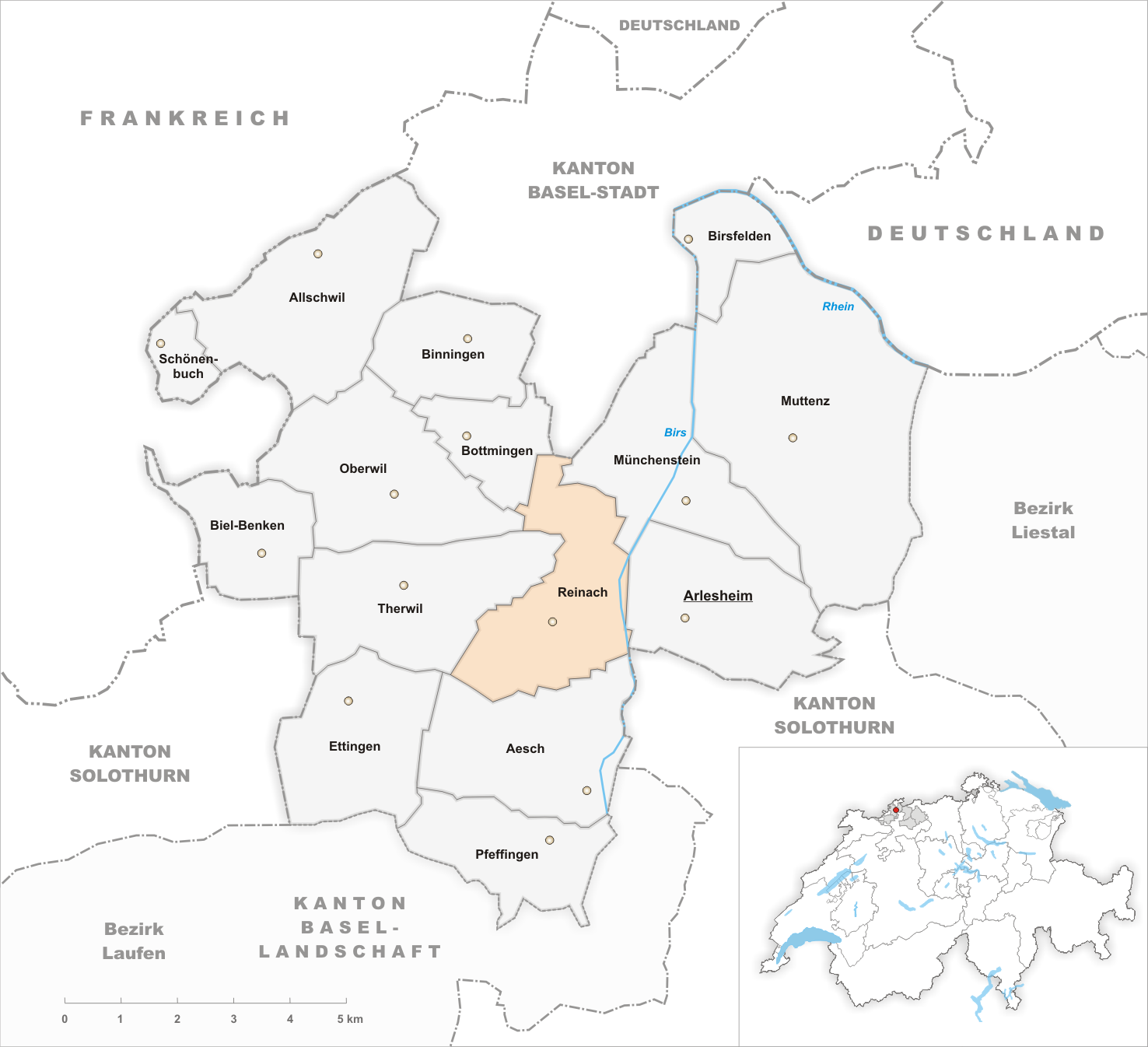 Municipality Reinach